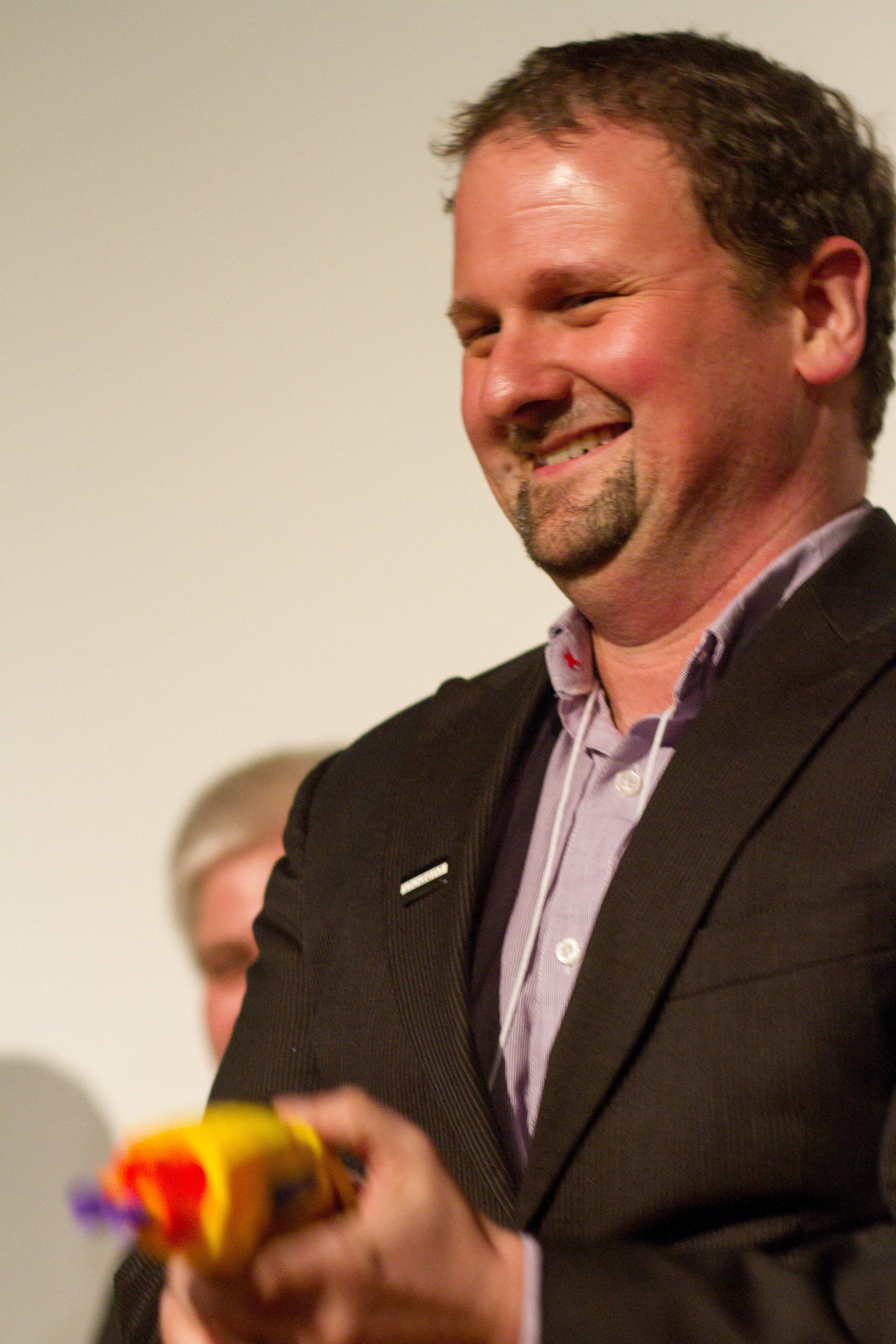 Secular Student Alliance Executive Director August Brunsman at SSAcon 2015.